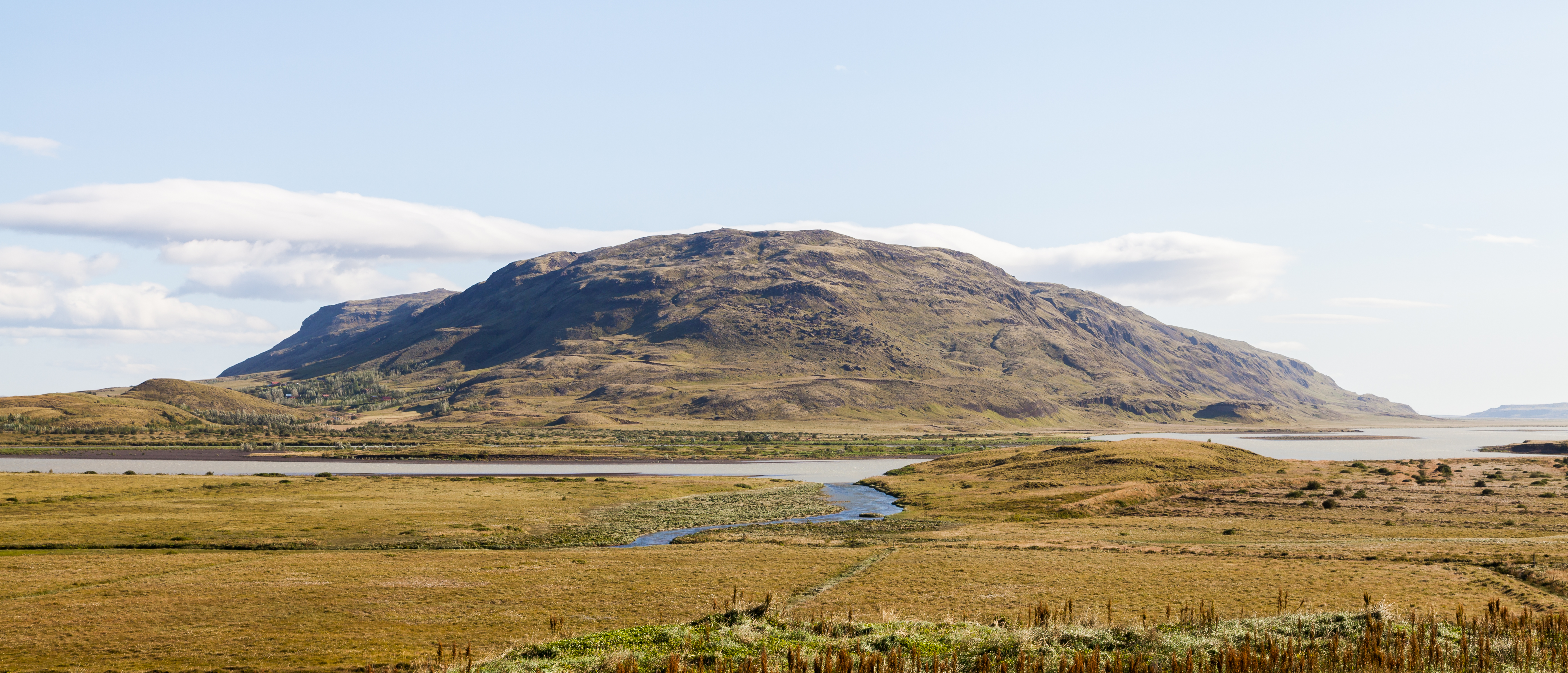 Landscape from Skálholt, Suðurland, Iceland